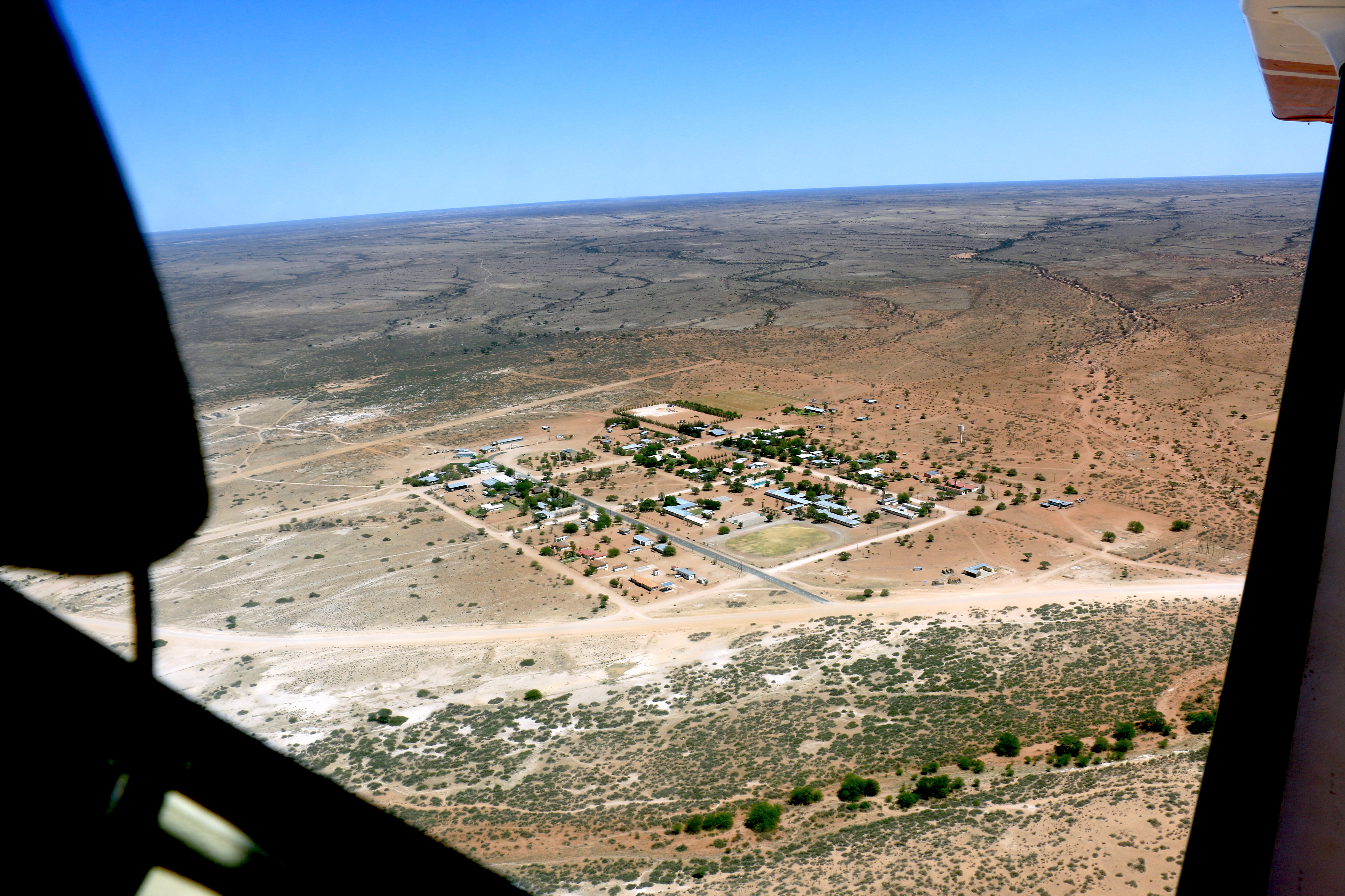 Bird's eye view of Koës approximately 300 Meters above Ground (October 2015)